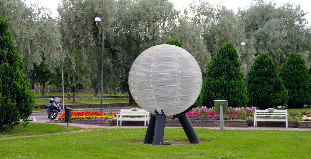 Neptune model of Sweden solar system in Söderhamn